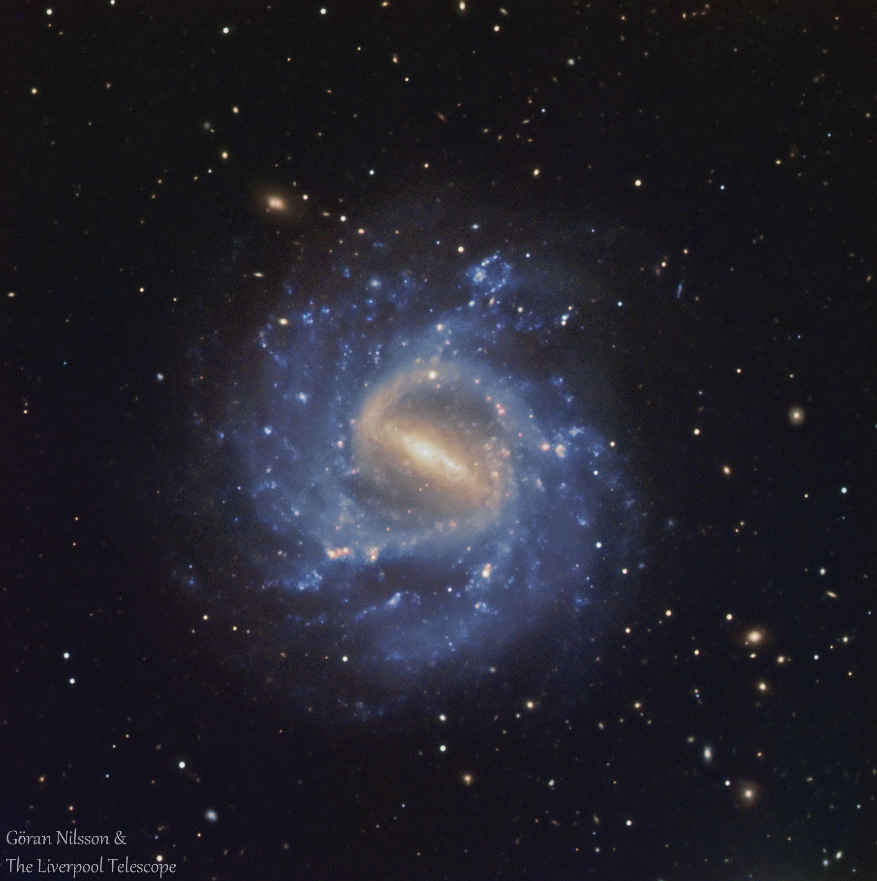 RGB image of the galaxy NGC 1073. Data from the Liverpool Telescope, a 2 m RC telescope on La Palma, processed by Göran Nilsson. 41 x 90s exposures totaling one hour